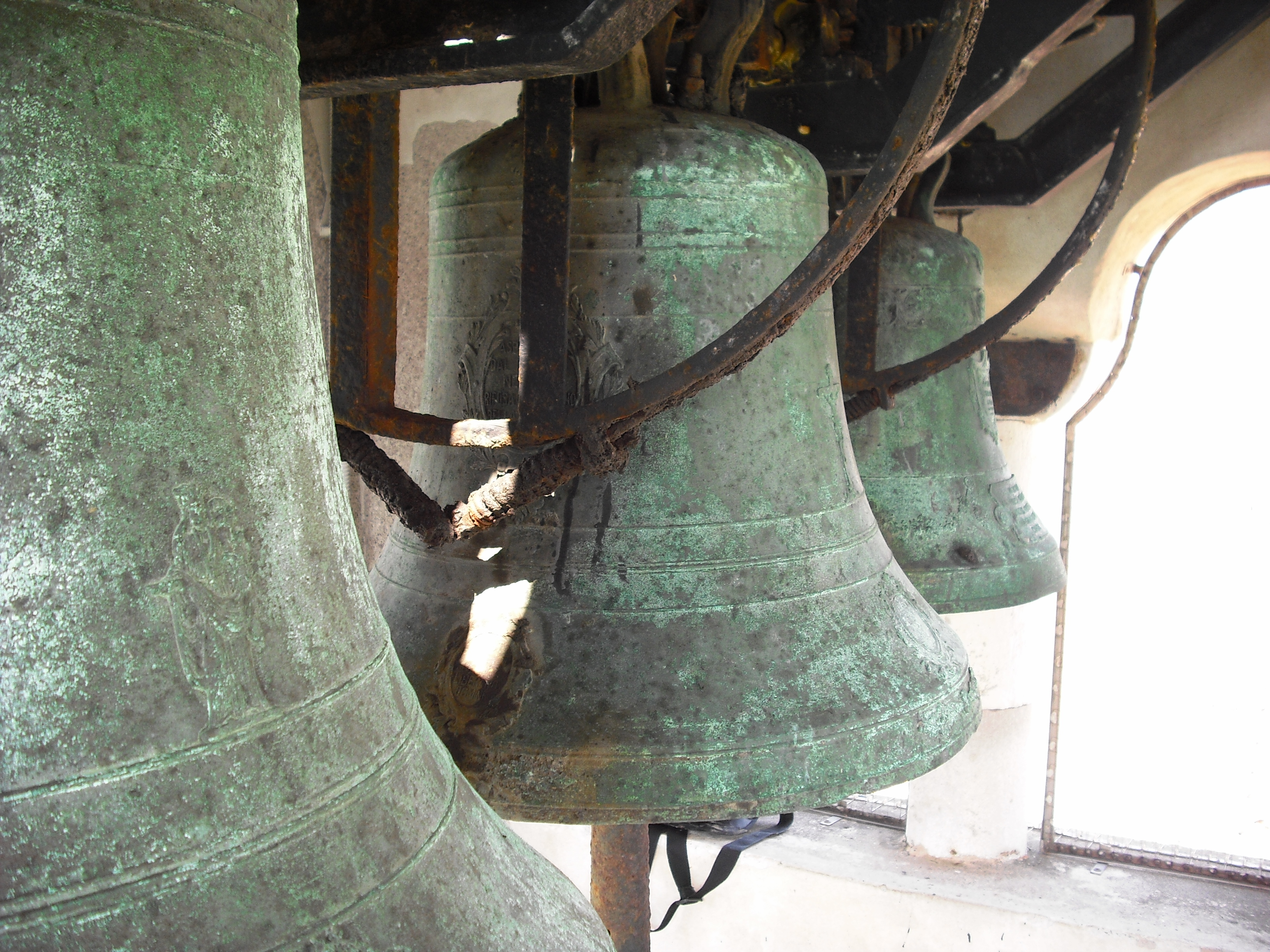 Campane Madonna dell'Angelo Caorle